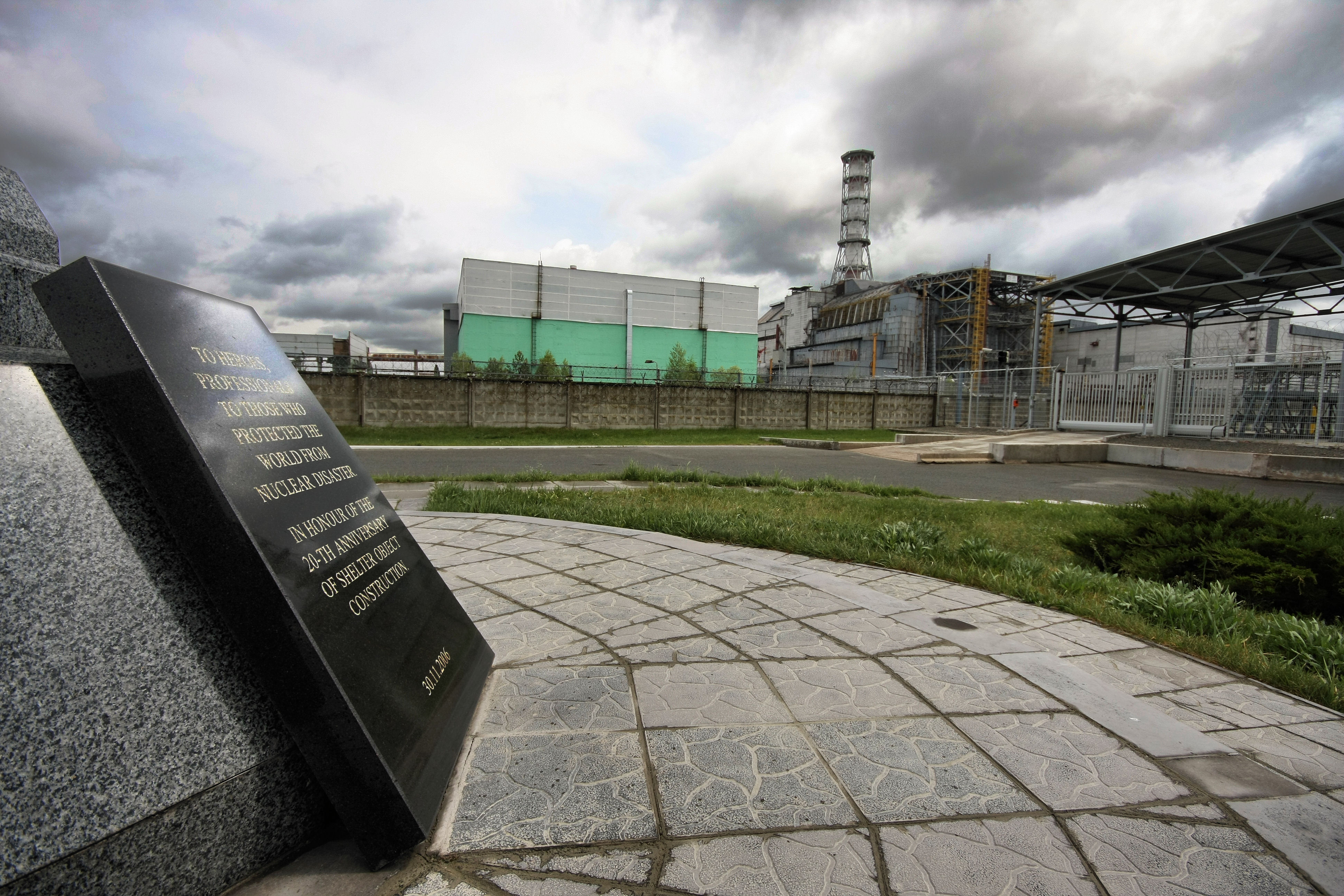 Chernobyl Nuclear Power Plant reactor number 4, the enclosing sarcophagus and the sign in the shelter object construction memorial monument.